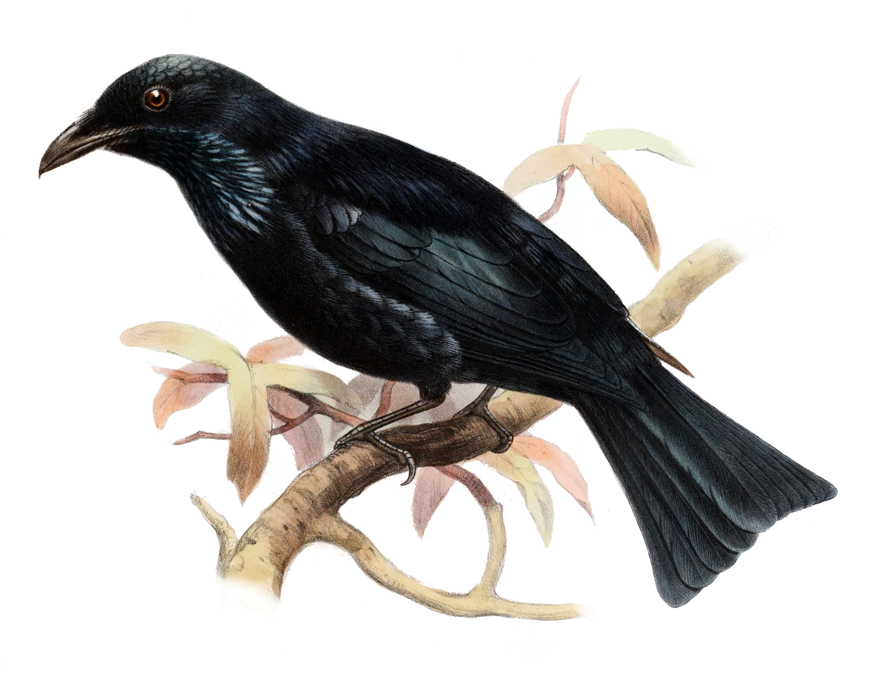 « Dicrurus striatus » = Dicrurus hottentottus striatus (Subspecies of Hair-crested Drongo)